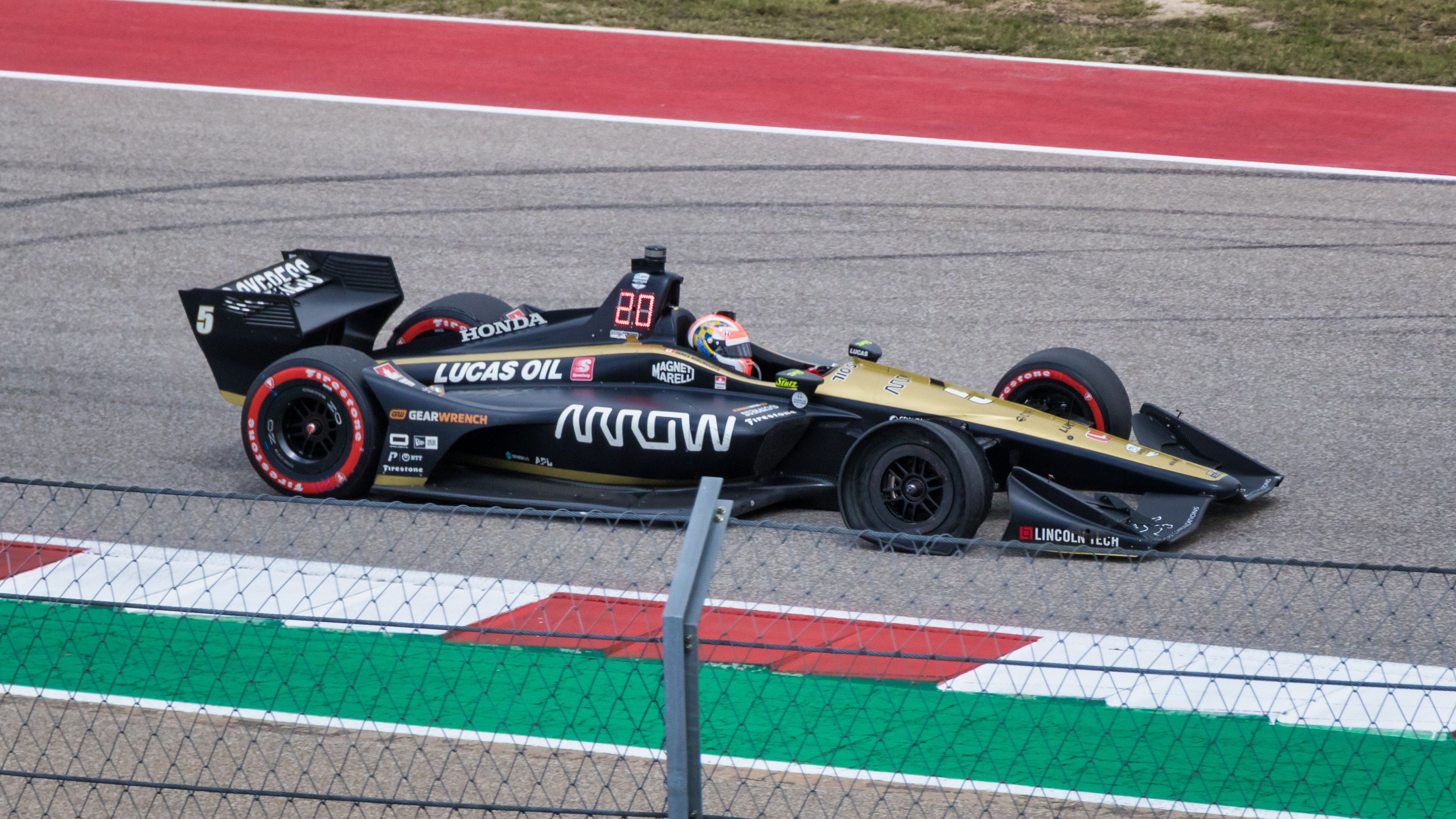 2019 Indy car classic-19.jpg